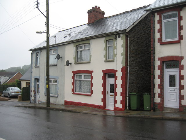 Older houses in Trinant These houses are on Pentwyn Road. Most of the houses in Trinant are Council Houses, or ex-Council Houses, but these are some which pre-date those.